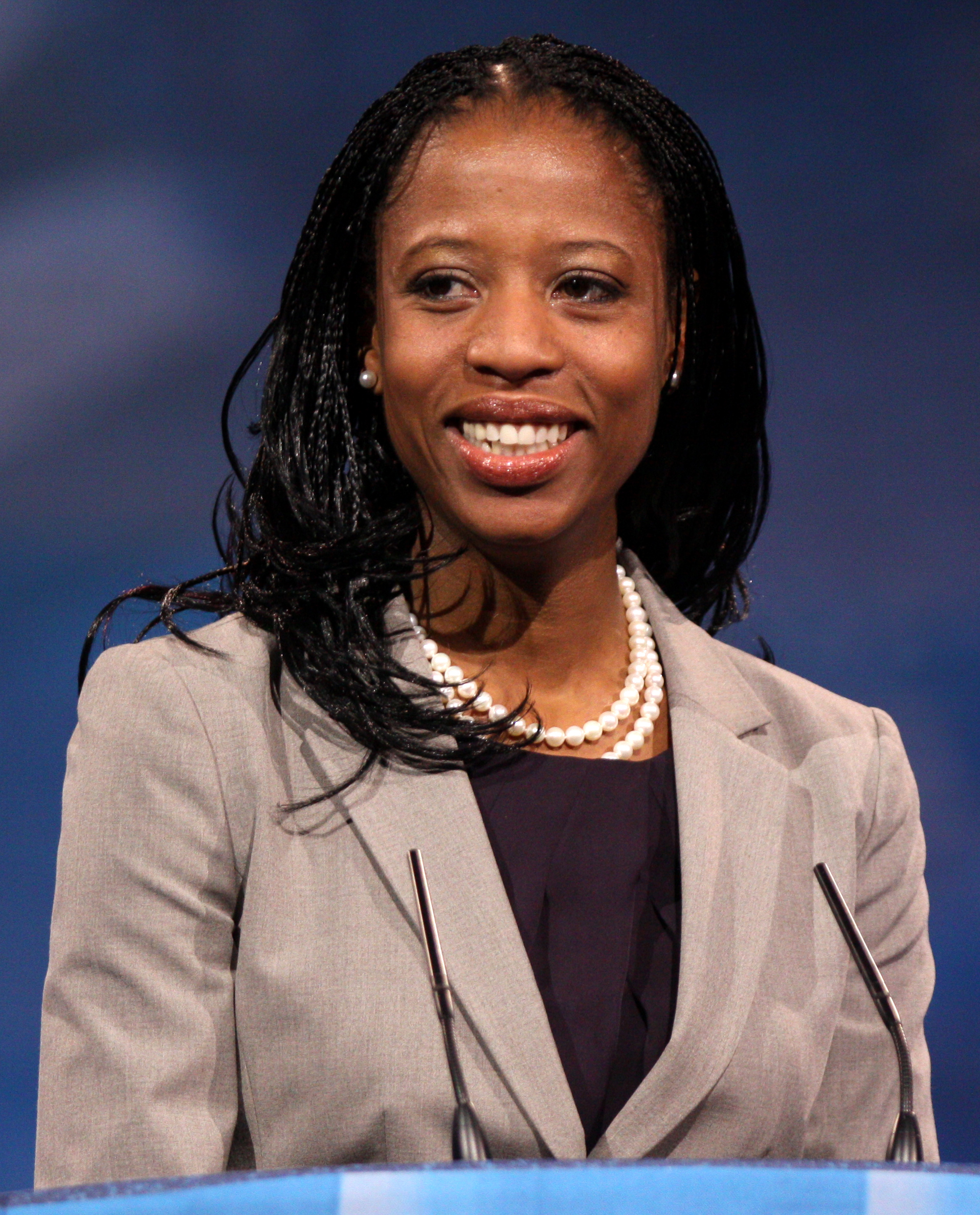 Mia Love speaking at the 2013 CPAC in Washington D.C. on March 16, 2013.